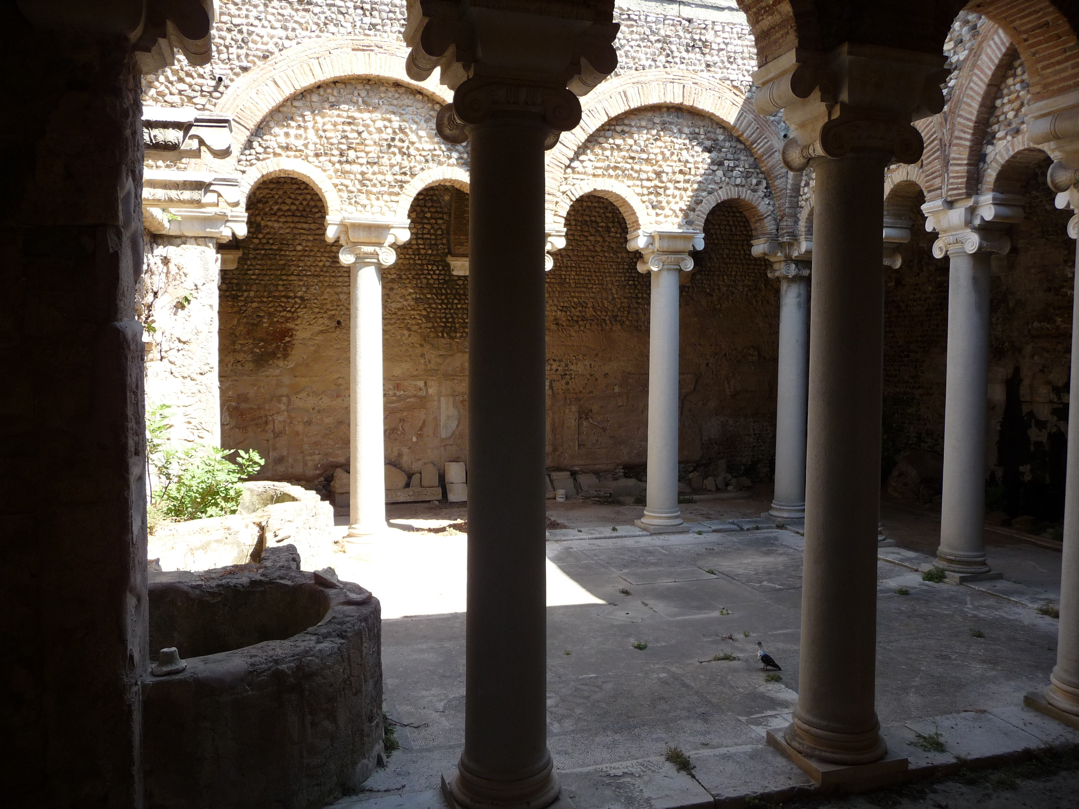 The Nymphaeum in Kos Town, which was actually a Roman public toilet.